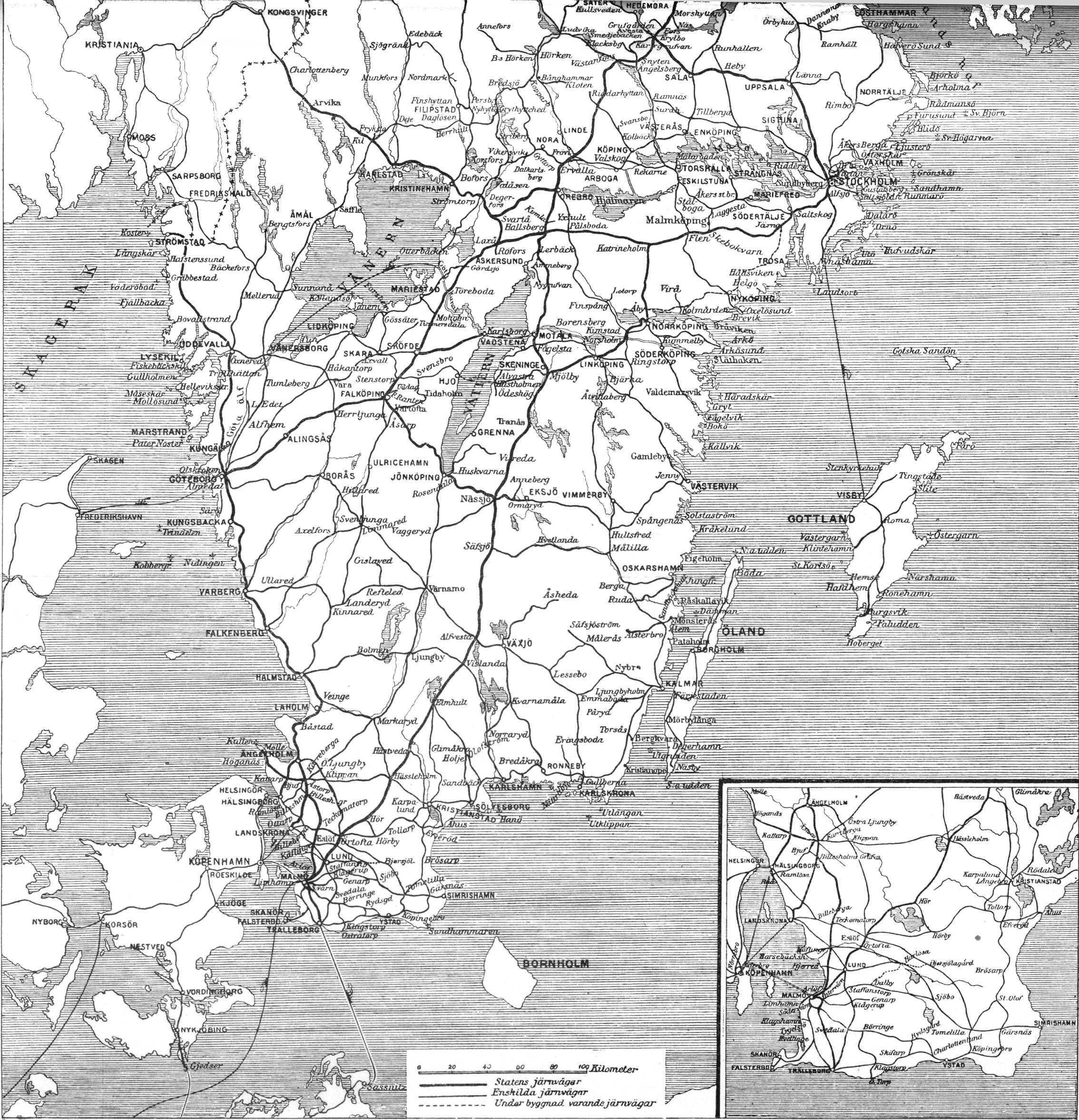 Railways in southern Sweden in 1910.